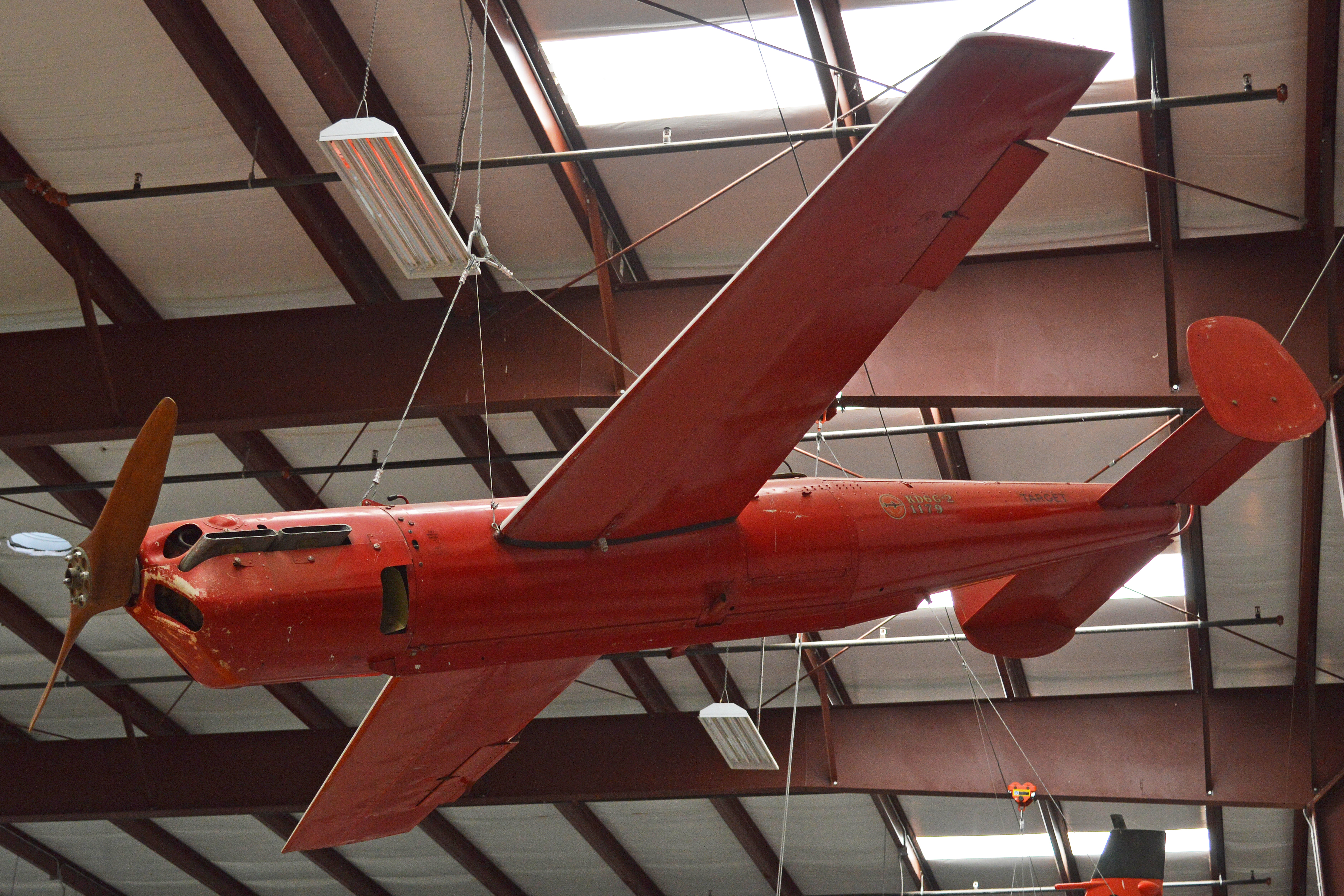 Globe KD6G-2 Firefly ‘1179’ Target drone built for U.S. Navy service. Type first flew in 1951. Later re-designated as the MQM-40A. This example flew from NAS Point Mugu, CA. On display in Hangar 3 at the Yanks Air Museum, Chino, California, USA. 28-2-2016.